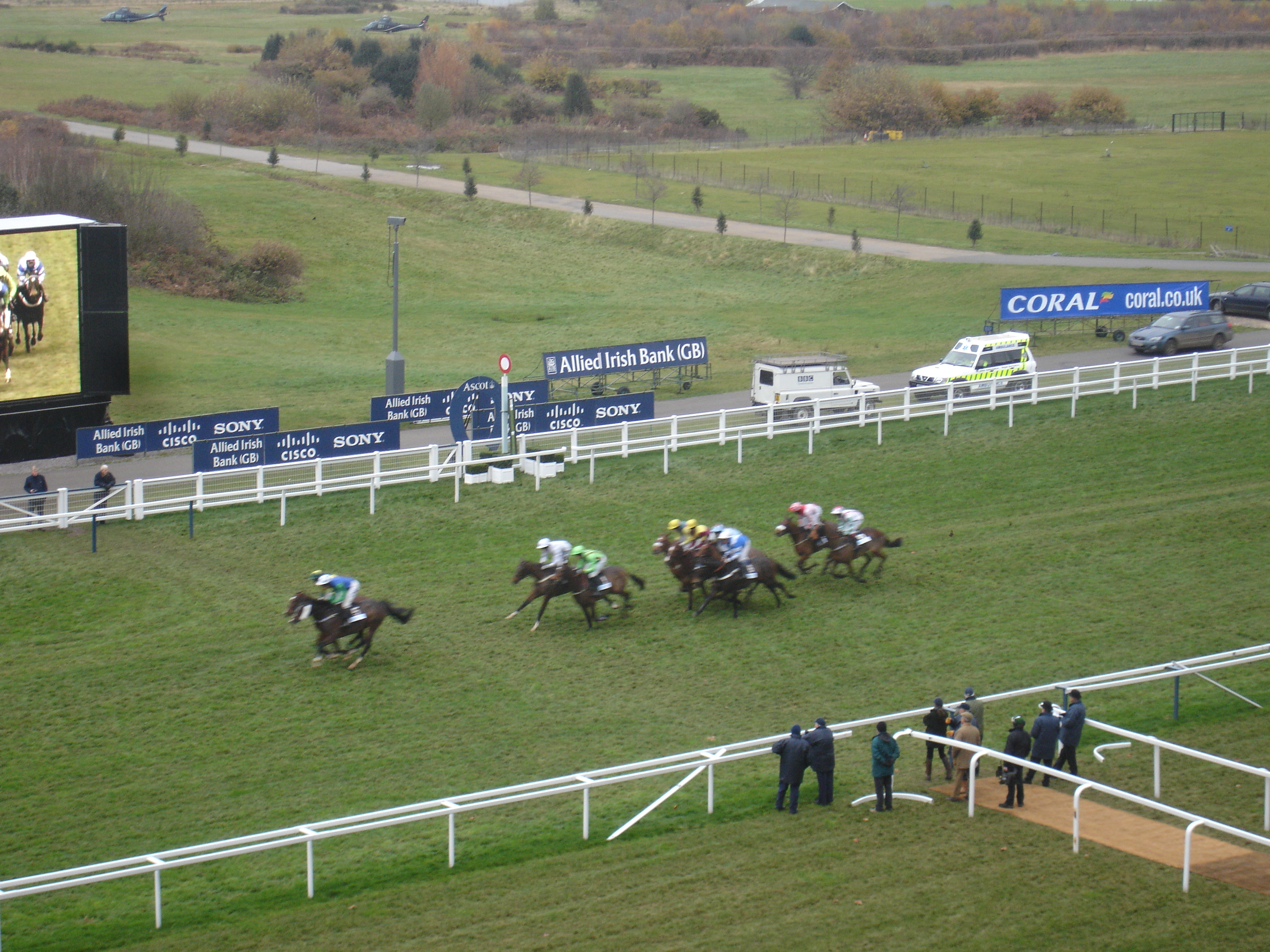 Photograph of the finishing post, Ascot Racecourse, Berkshire, England